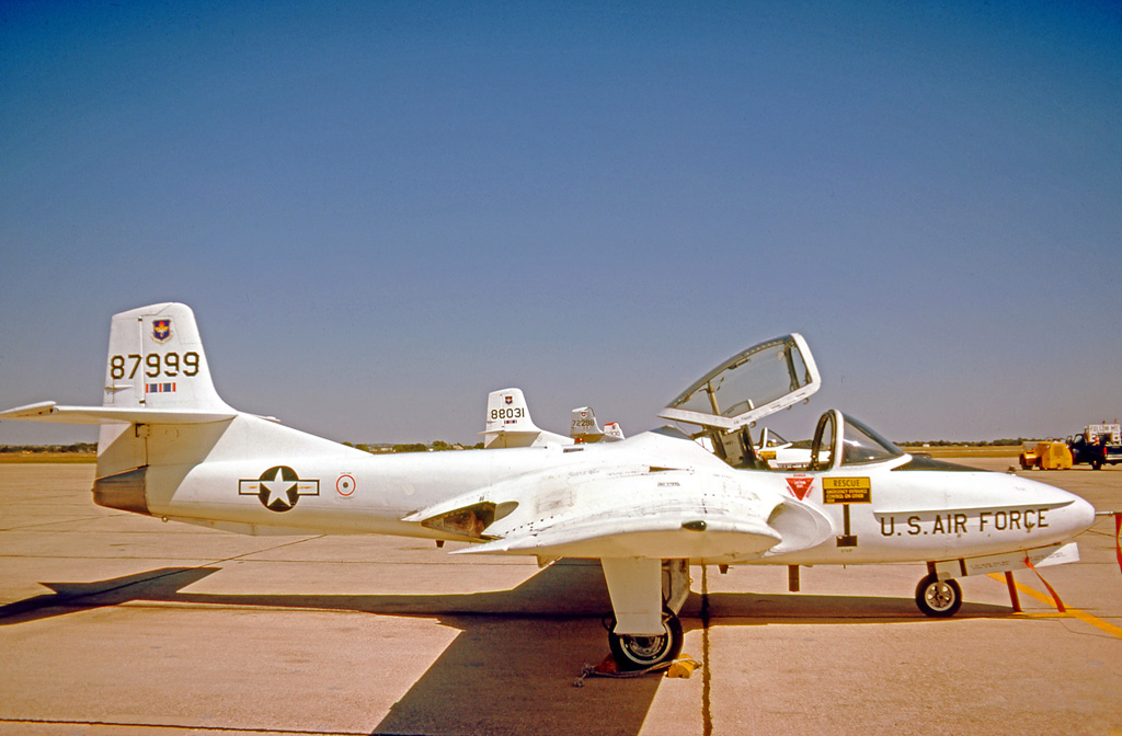 Cessna T-37B 87999 of 559 FTS, 12 FTW, at Randolph AFB Texas in 1975